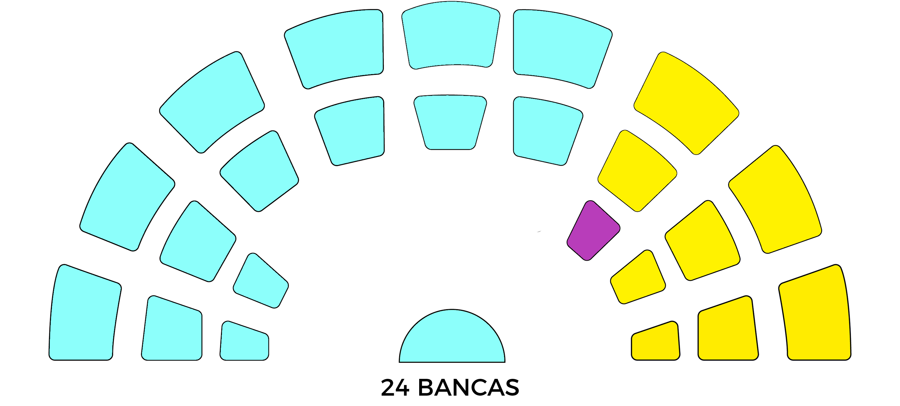 Deliberative Council of the municipality of Berazategui